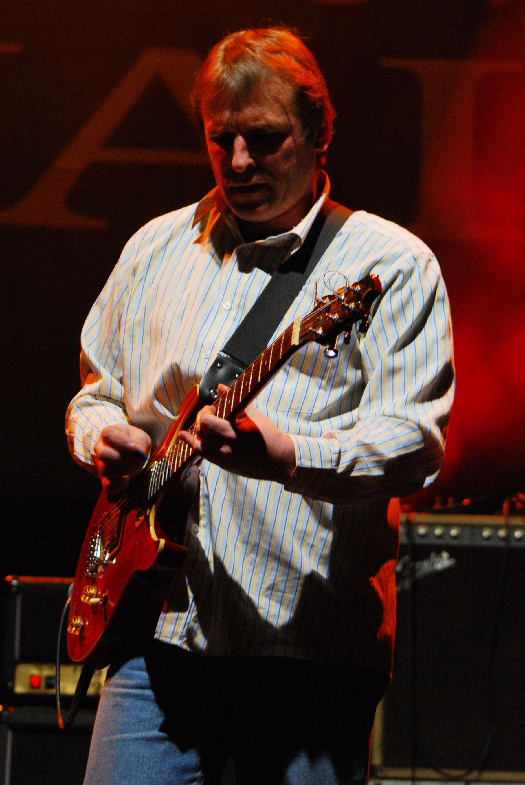 Artur Bazior from Krakowska Grupa Bluesowa during 27. edycji Rawy Blues Festival